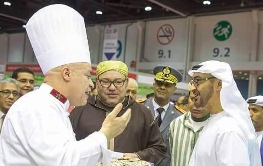 Chef Moha with the King of Morocco Mohamed 6, and the Crown Prince of the United Arab Emirates